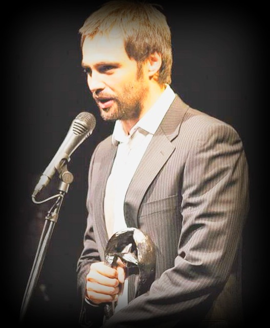 Gerardo Begerez - Premio Florencio Award for Best Director 2015